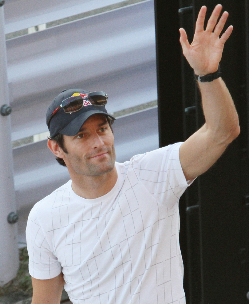 Formula One 2010 Rd.16 Japanese GP: Mark Webber (Red Bull) at autograph session on Thursday.